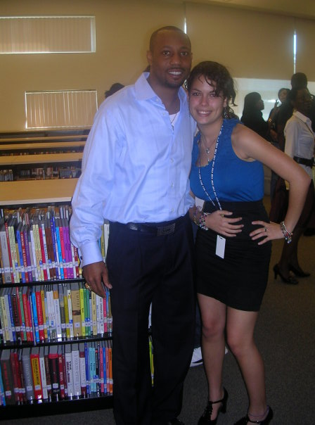 Duan Starks with Miami Beach High student at the high school.